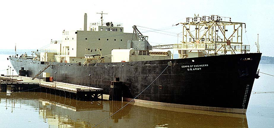 Photo of MH-1A Nuclear Power Plant